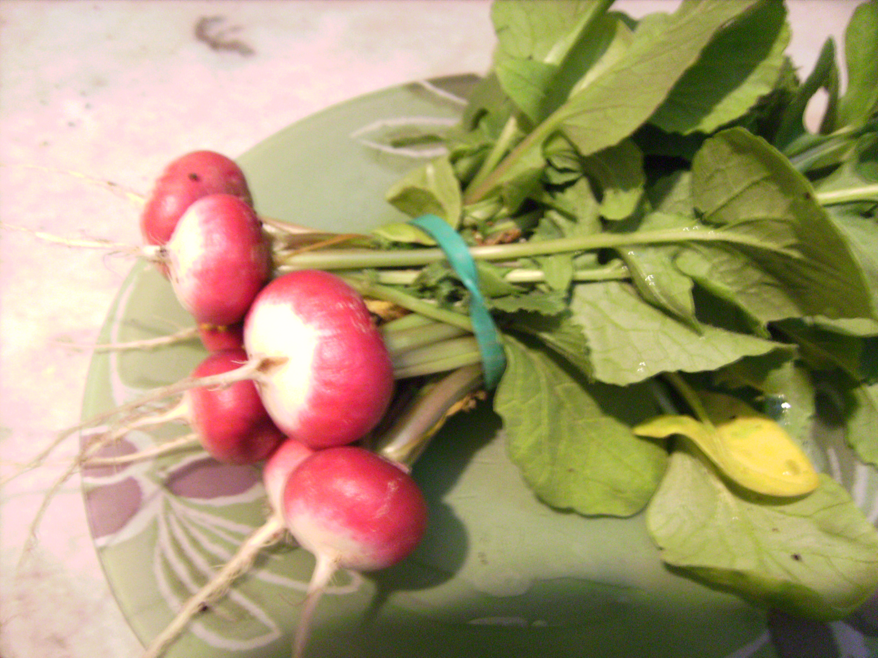 Round, white-tipped radishes grown in winter on a balcony in Barcelona